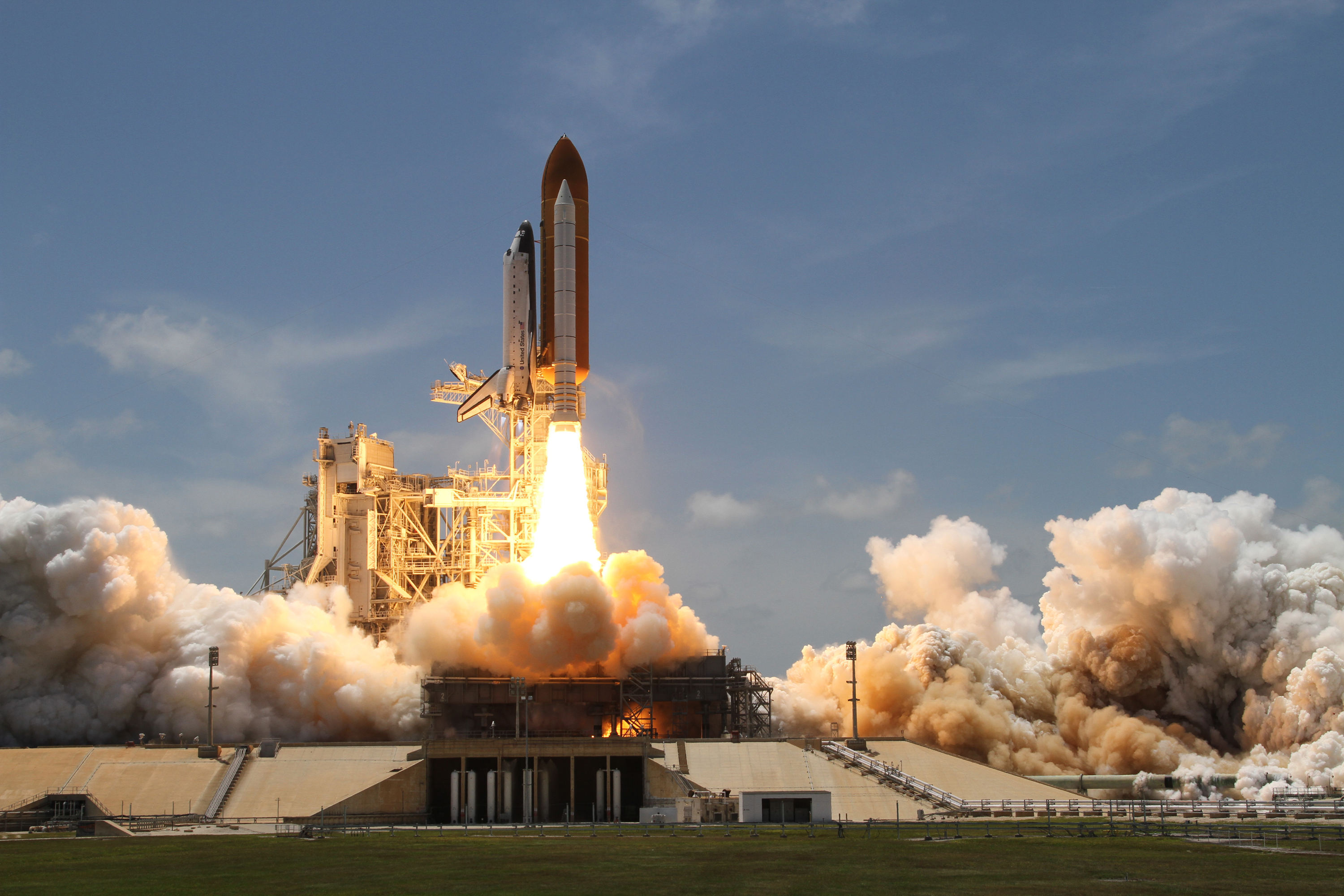 Space shuttle Atlantis lifts off from Launch Pad 39A at NASA's Kennedy Space Center in Florida on the STS-132 mission to the International Space Station at 2:20 p.m. EDT on May 14. The third of five shuttle missions planned for 2010, this was the last planned launch for Atlantis. The Russian-built Mini Research Module-1 is inside the shuttle's cargo bay. Also known as Rassvet, or "dawn," it will provide additional storage space and a new docking port for Russian Soyuz and Progress spacecraft. The laboratory will be attached to the bottom port of the station's Zarya module. The mission's three spacewalks will focus on storing spare components outside the station, including six batteries, a communications antenna and parts for the Canadian Dextre robotic arm. STS-132 is the 132nd shuttle flight, the 32nd for Atlantis and the 34th shuttle mission dedicated to station assembly and maintenance.